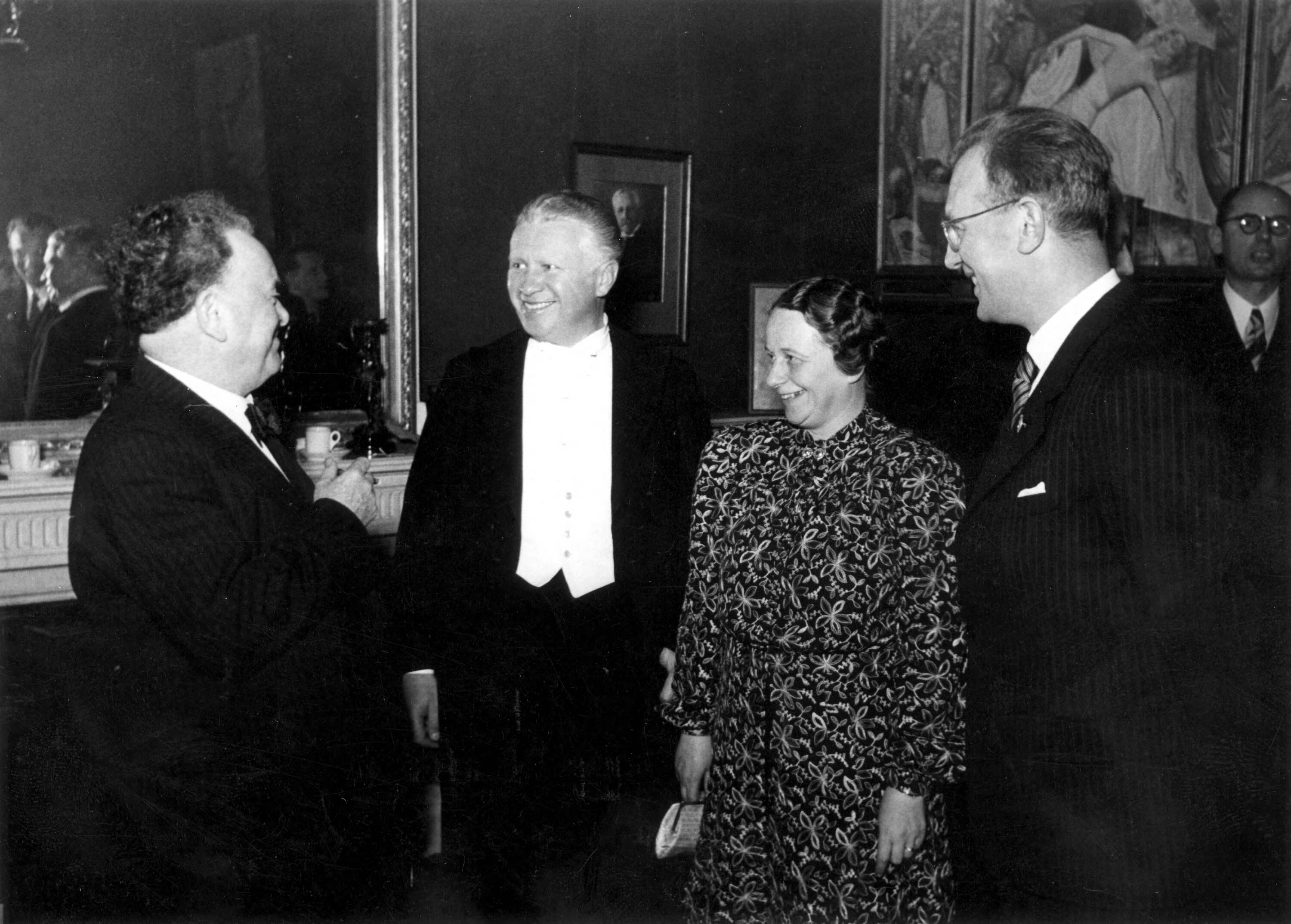 Left to right: Dutch conductor Willem Mengelberg, Austrian composer and pianist Egon Kornauth, singer Erika Rokyto, Austrian and Arthur Seyss-Inquart (Reichskommissar in the Netherlands) during a visit of the German Foundation from Düsseldorf (Städtischer Musikverein zu Düsseldorf?) to Amsterdam (the Netherlands), Concertgebouw. Date April 30, 1941.